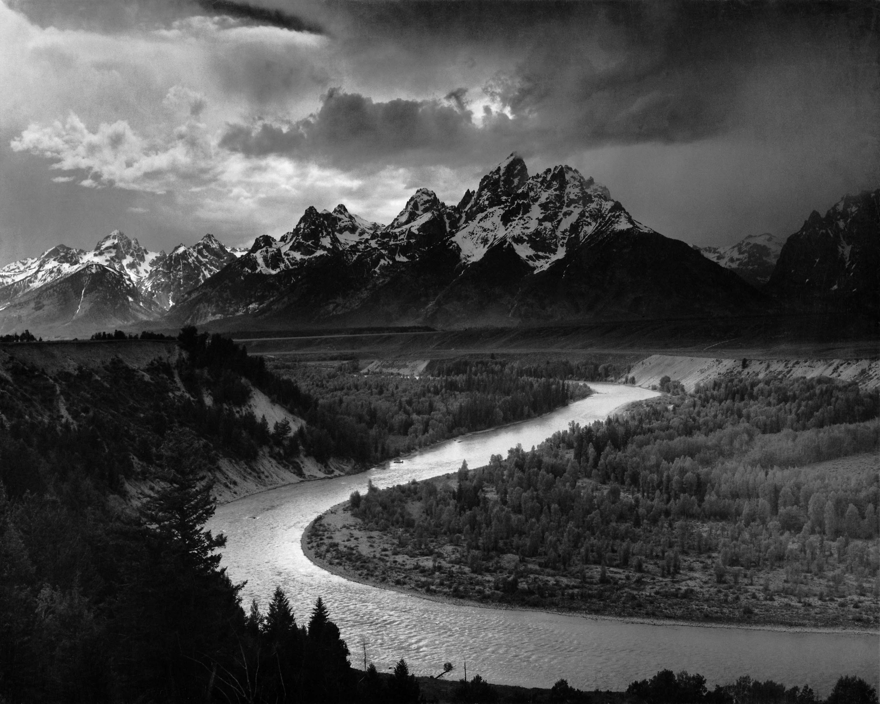 Ansel Adams The Tetons and the Snake River (1942) Grand Teton National Park, Wyoming. National Archives and Records Administration, Records of the National Park Service. (79-AAG-1)